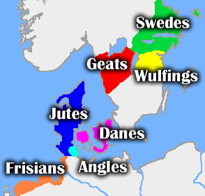 Beowulf geography.